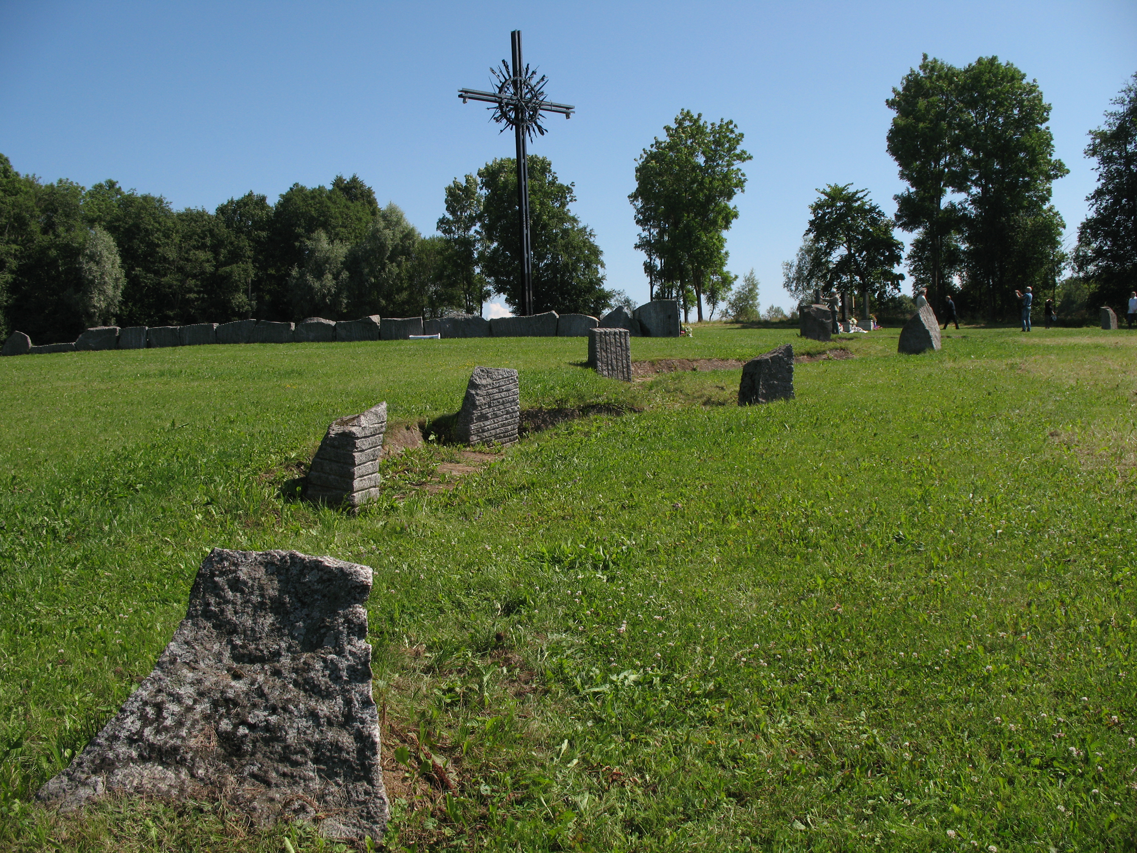 Memorial for the memory of the Battle of Tannenberg Line (Estonian: Sinimägede lahing) in Sinimäe village in Vaivara Parish, Ida-Viru County, Estonia.